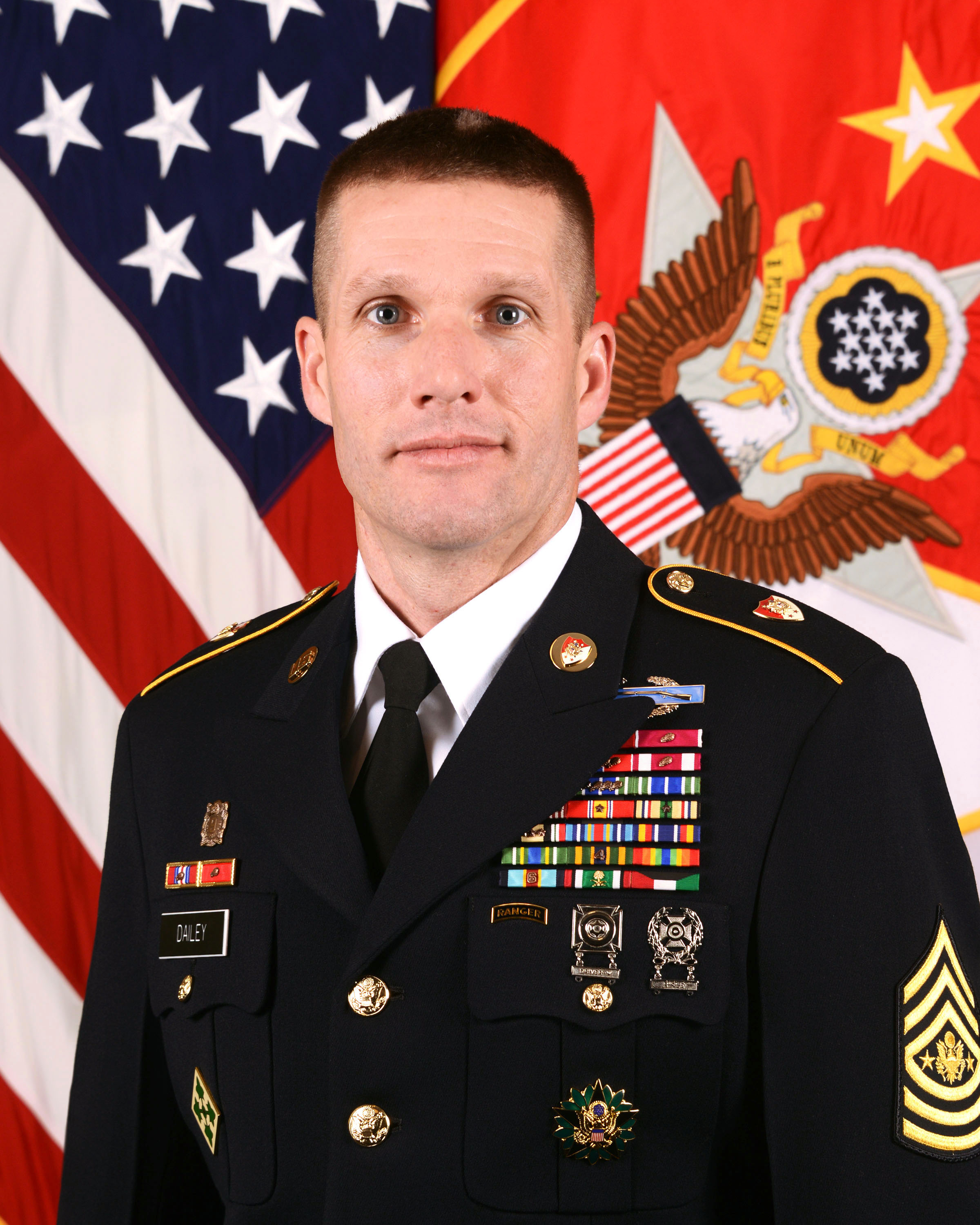 SGM of the Army Daniel A. Dailey poses for a command portrait in the Army portrait studio at the Pentagon in Arlington County, Virginia, Jan. 15, 2015.